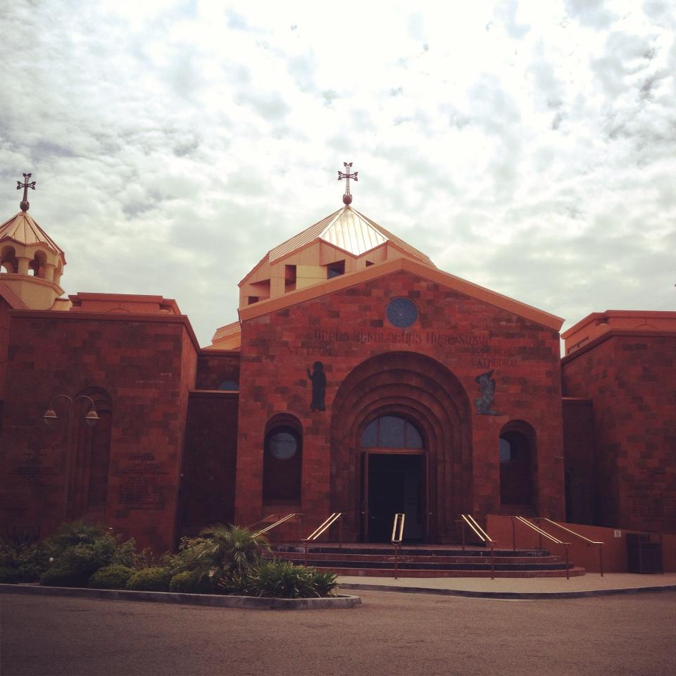 St Leon Armenian Cathedral in Burbank, CA